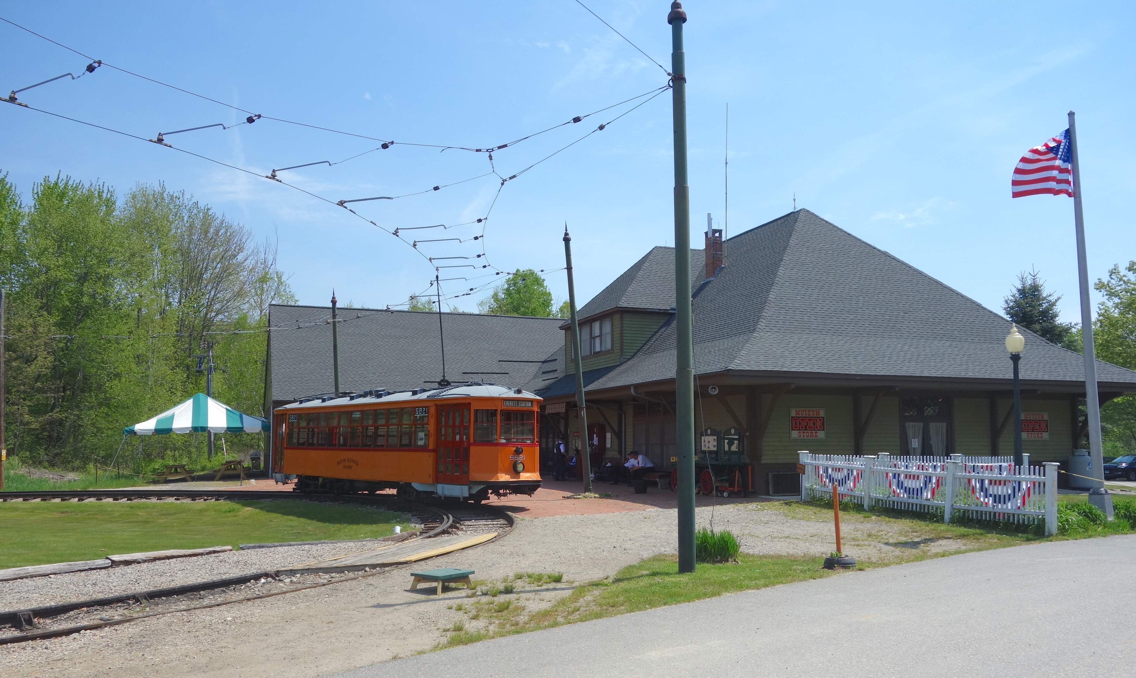 The Visitor Center at the Seashore Trolley Museum with Boston Elevated Railway car 5821 at the stop